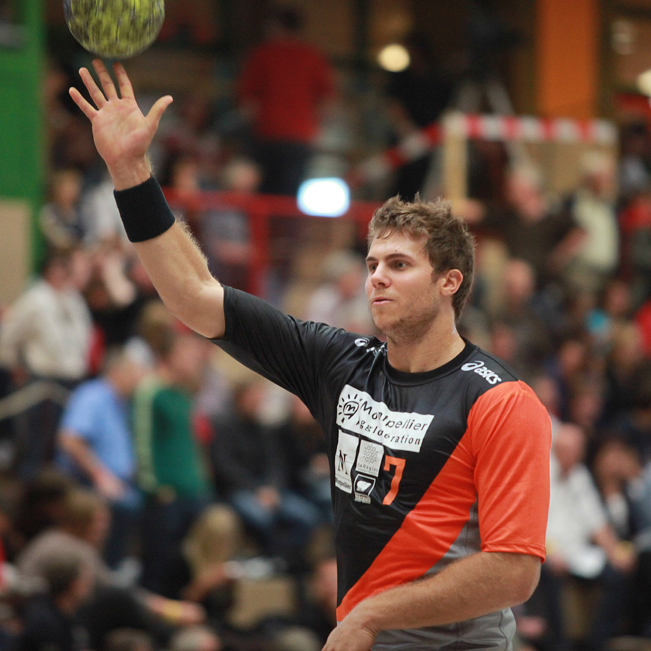 William Accambray, French handball player, on August 14th, 2010 in Ehingen (Germany), during the Schlecker Cup 2010.